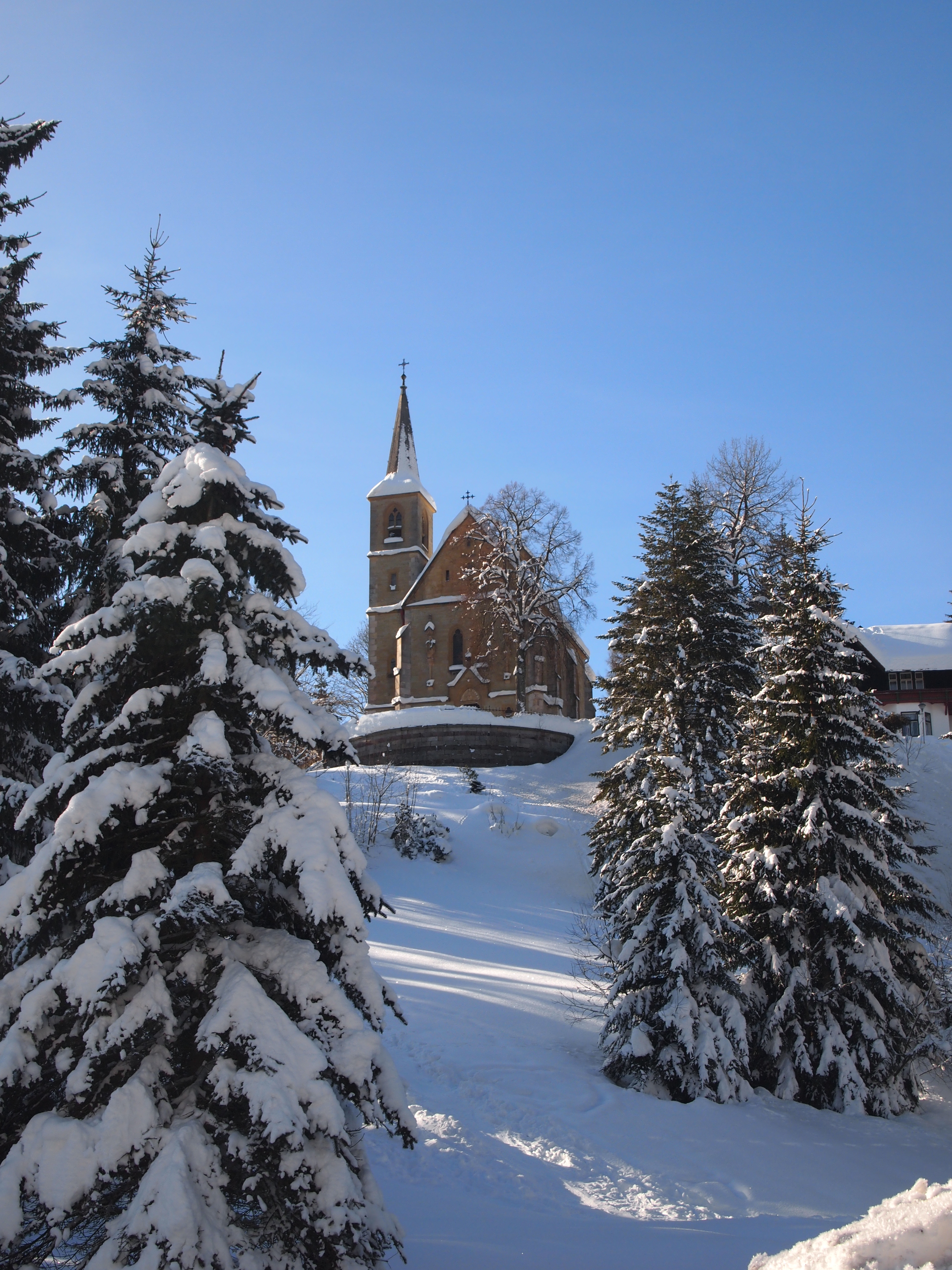 Church of Saint John the Baptist, Janské Lázně